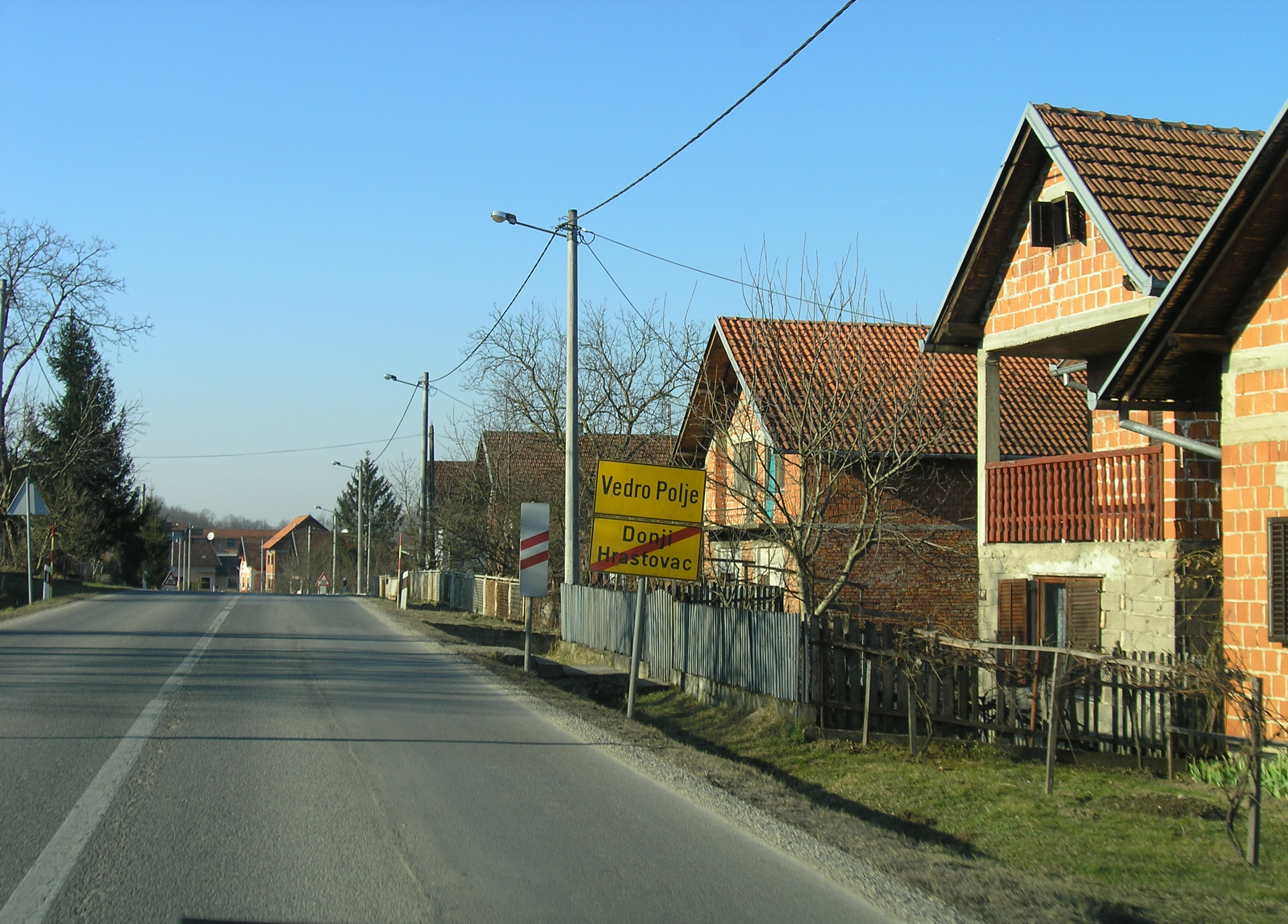 Village Vedro Polje in Sisak-Moslavina county, near Sunja, Croatia